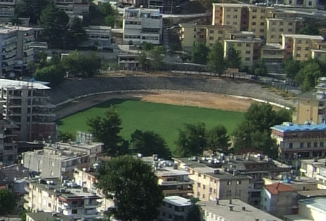 Photo of the Gjirokastër Stadium surrounded by buildings in the centre of the city. Taken on 26 July 2011.